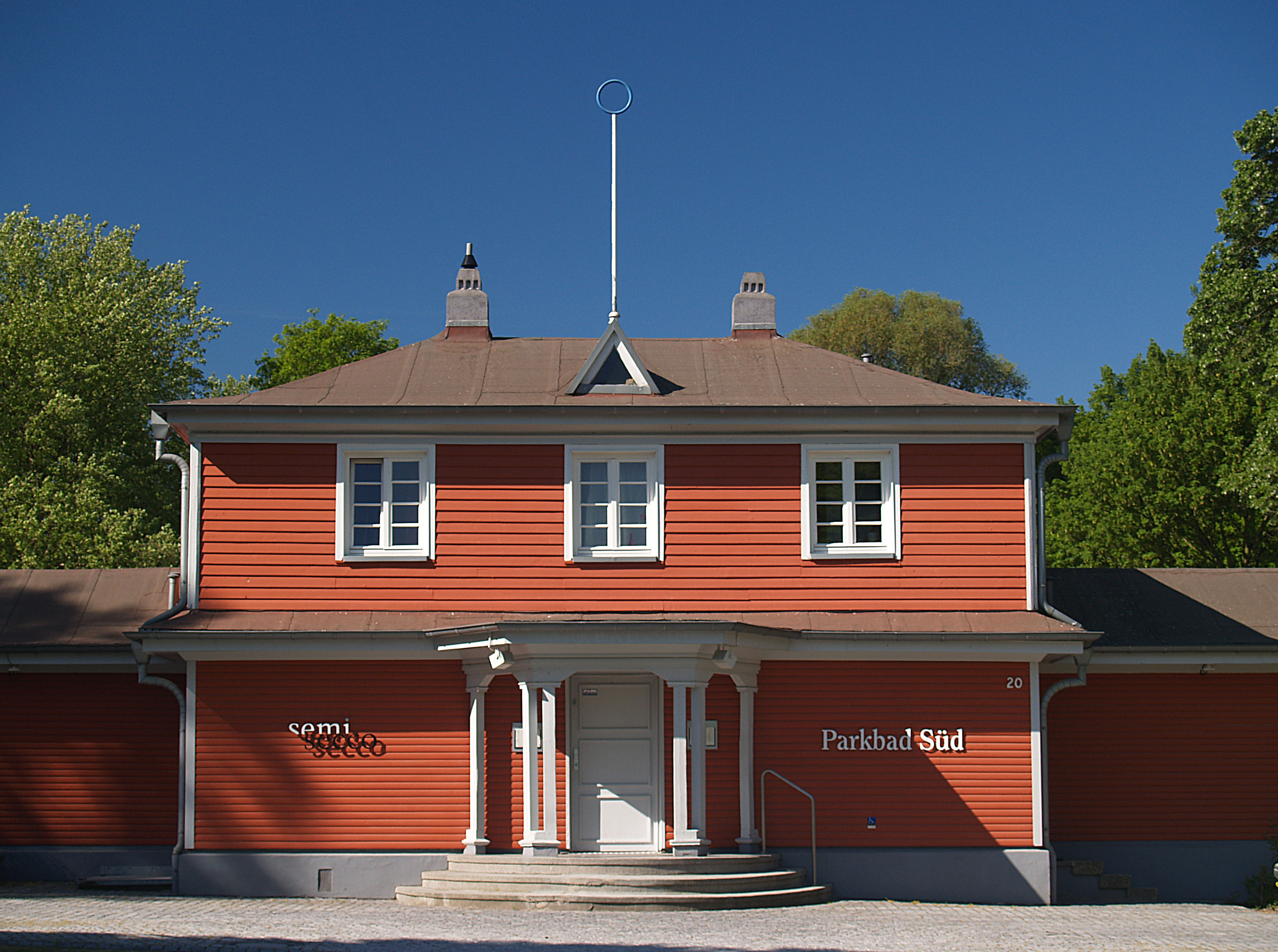 Parkbad Süd at Castrop-Rauxel, Germany, a former open air swimming pool